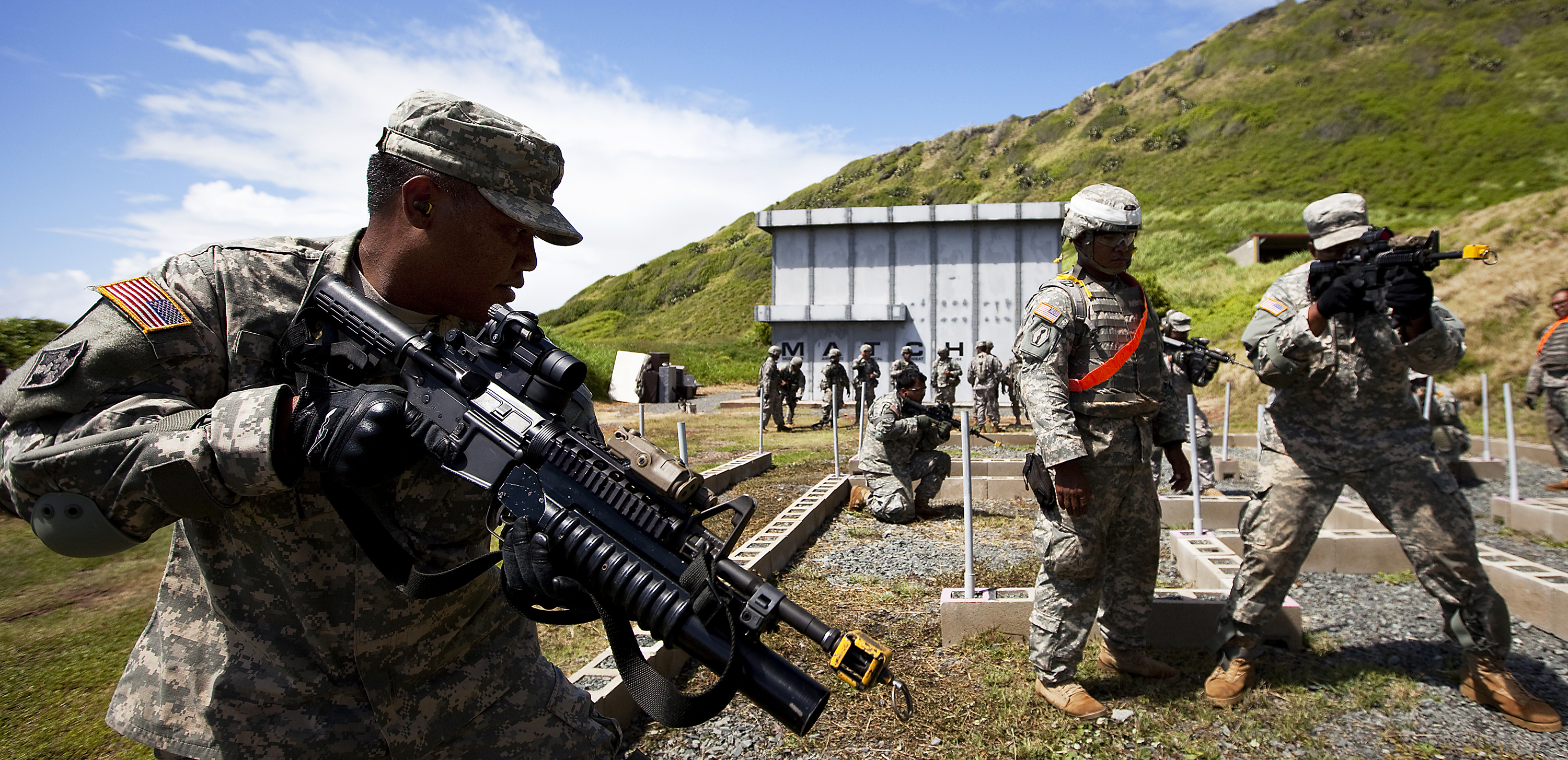 Army Spc. Daniel Toves, a rifleman with Echo Company, 100th Battalion, 442nd Infantry Regiment, practices room clearing in a “glass house,” an open maze of cinder blocks positioned to mock the layout of a building, in preparation for clearing the modular armored tactical combat house, or “shoot house,” at the Kaneohe Bay Range Training Facility on Marine Corps Base Hawaii, June 21, 2011. The training evolution was part of the reserve infantry battalion’s annual training package conducted both here and on Schofield Barracks from June 13 to June 30.